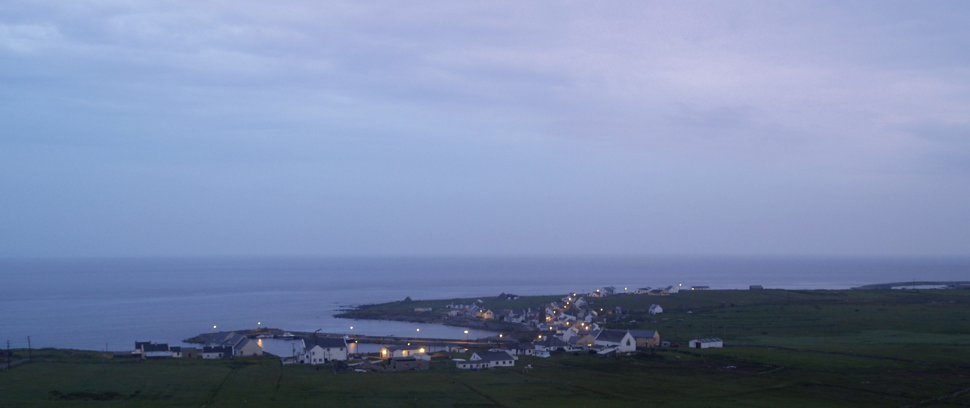 Tory island before dark